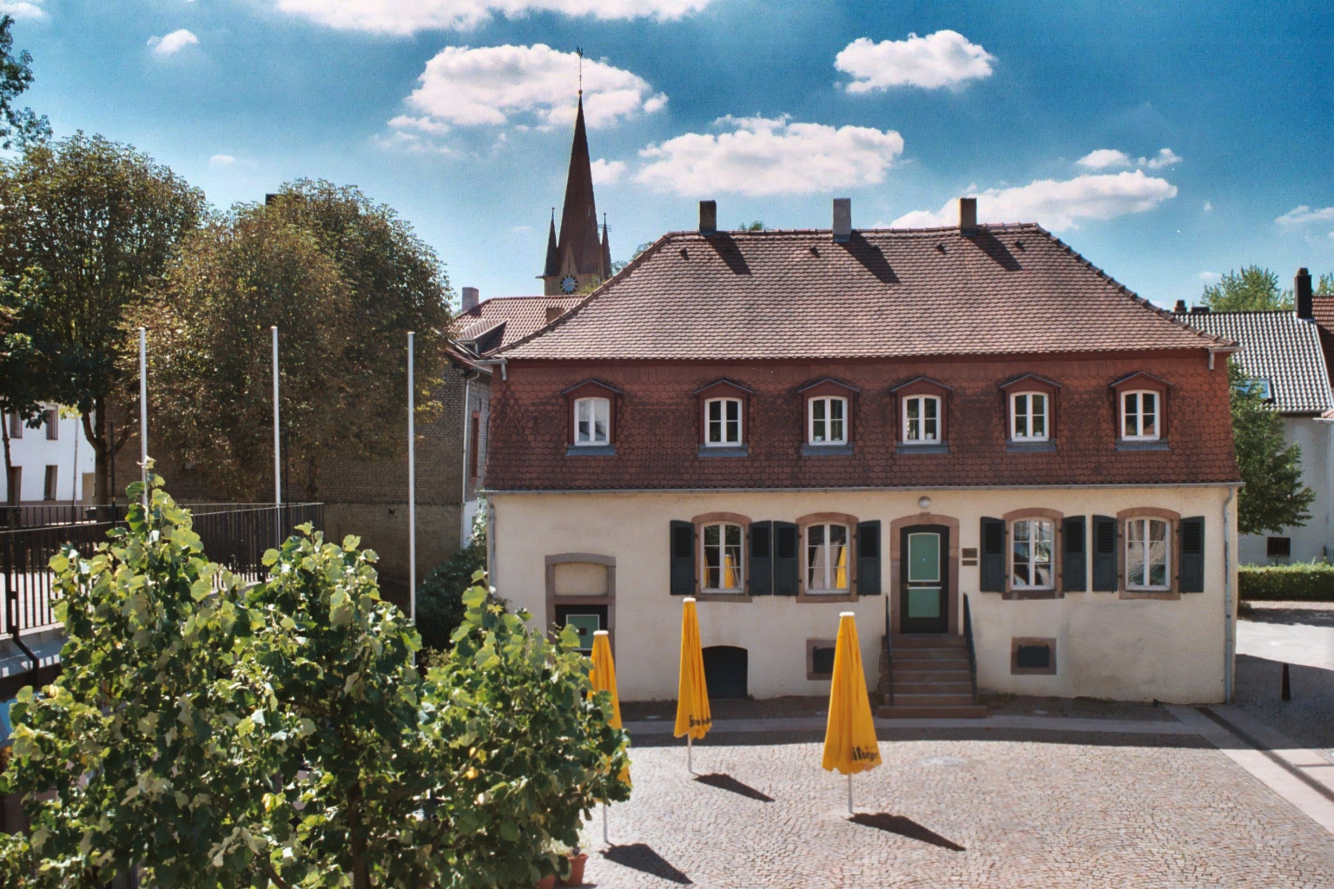 Sulzbach (Saar), the salt houses, manor house